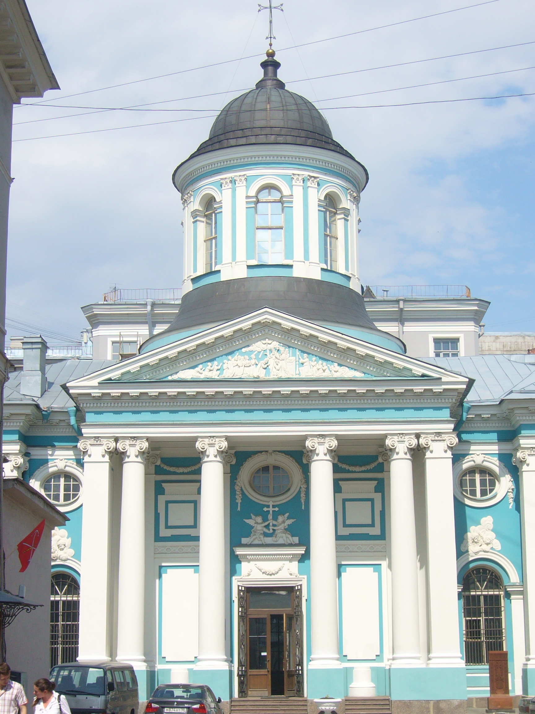 St. Catherine Armenian church in St.Petersburg.